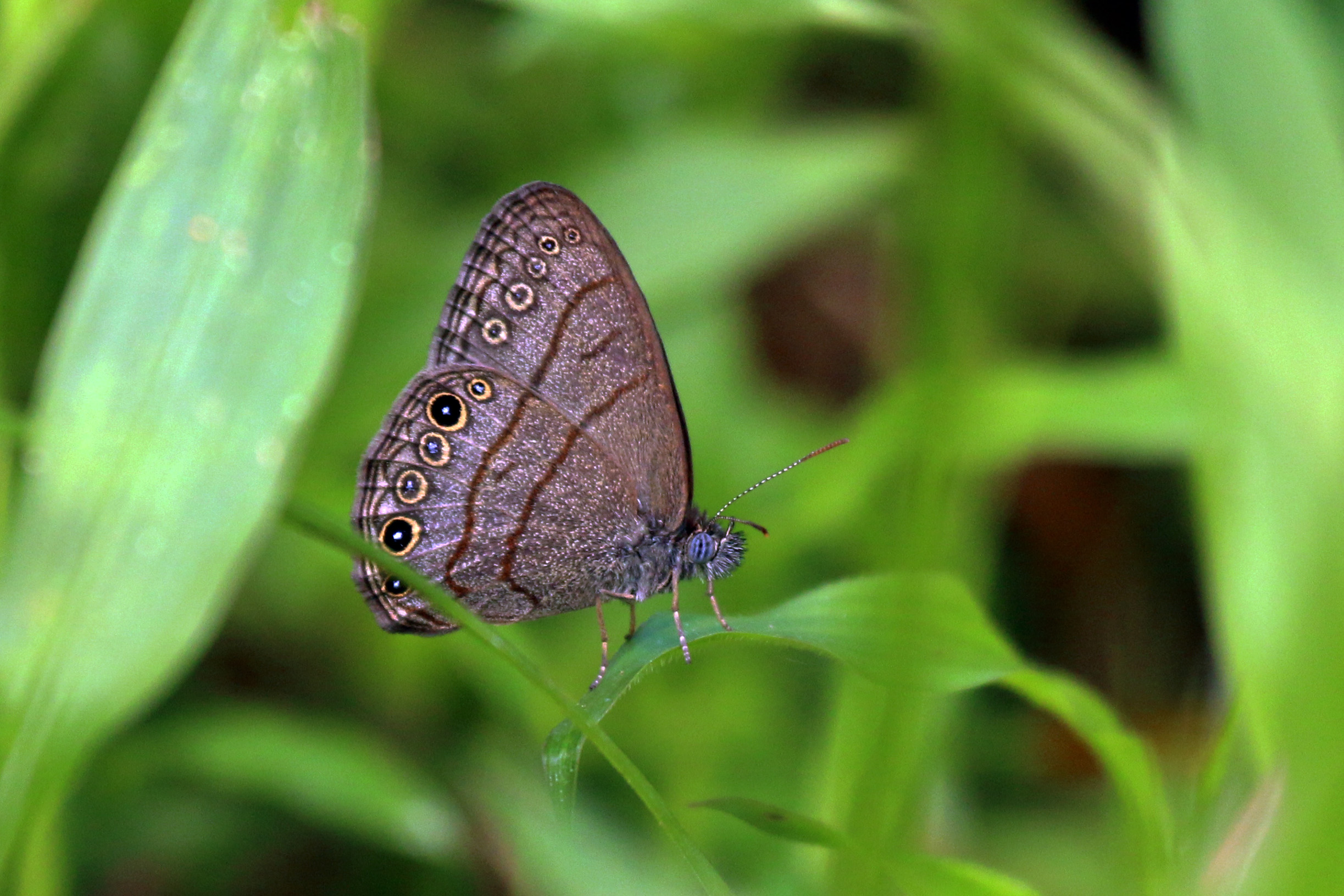 Hermes satyr butterfly (Euptychia hermes), Tobago